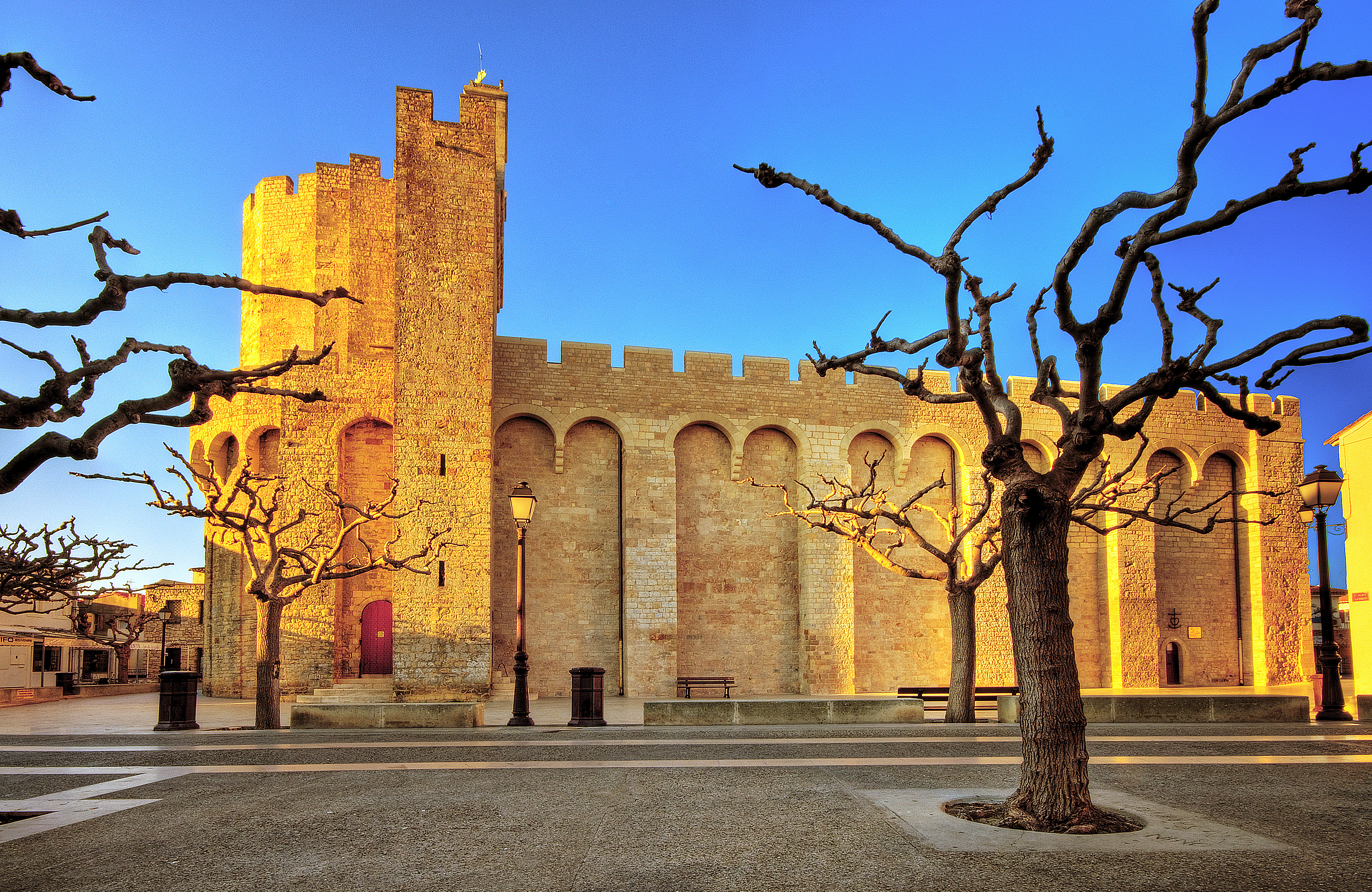 Get here a large view!